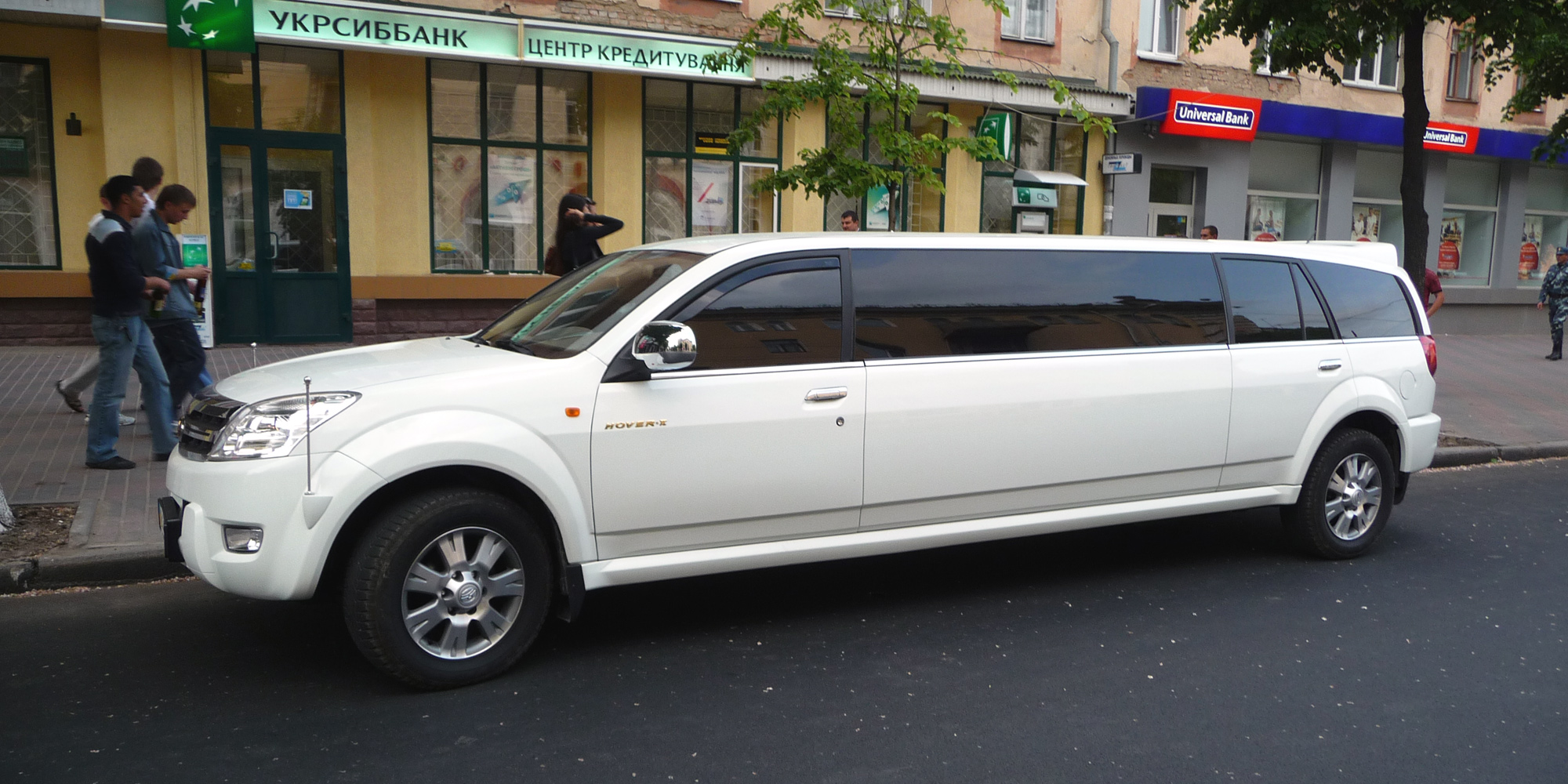 Great Wall Hover P (Pi) auto. Great Wall Motor Company, China. Photo made in Ukraine, Vinnytsia city.